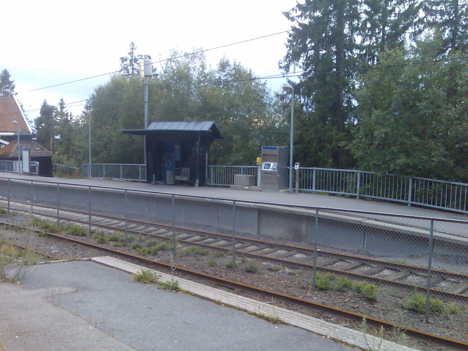 Skogen t-bane (metro) station